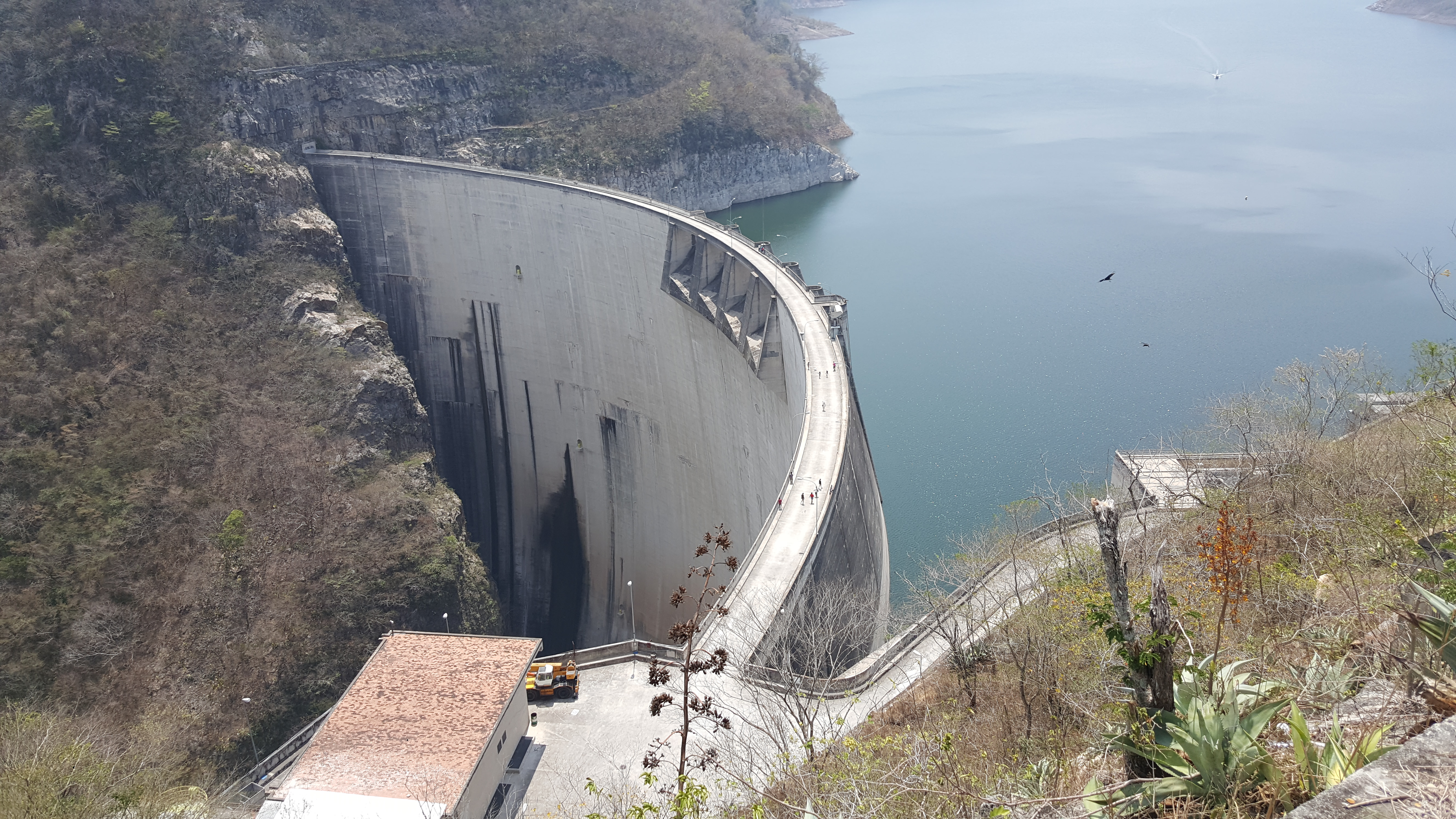 Lots of water contained in a small space to produce electricity